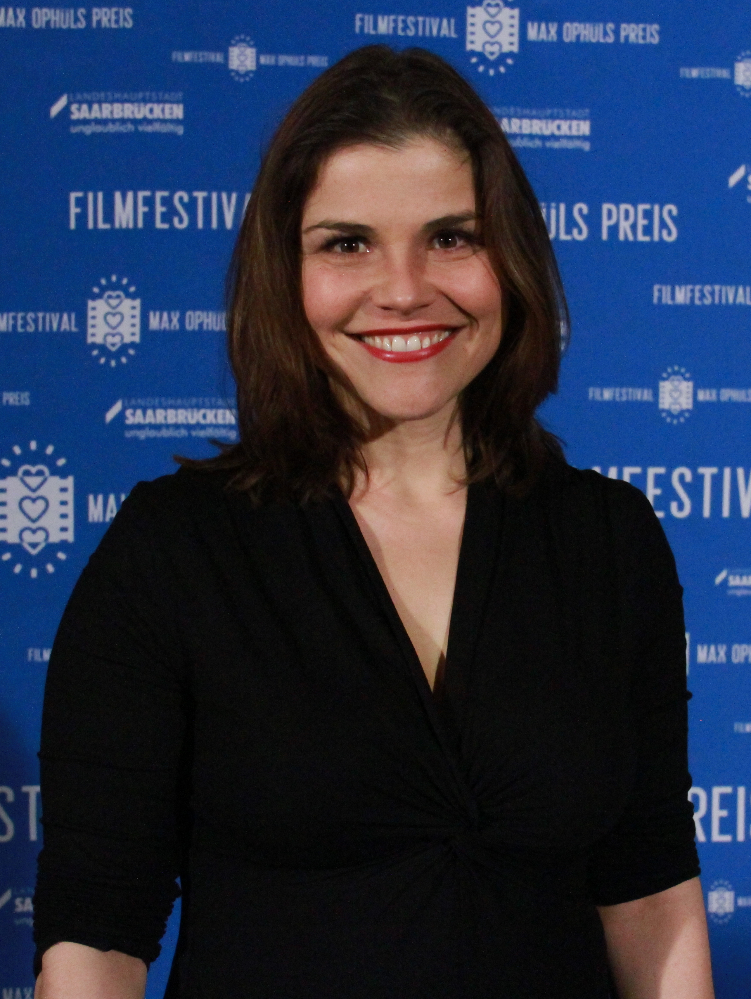 Katharina Wackernagel at the Max-Ophüls-Festival 2015